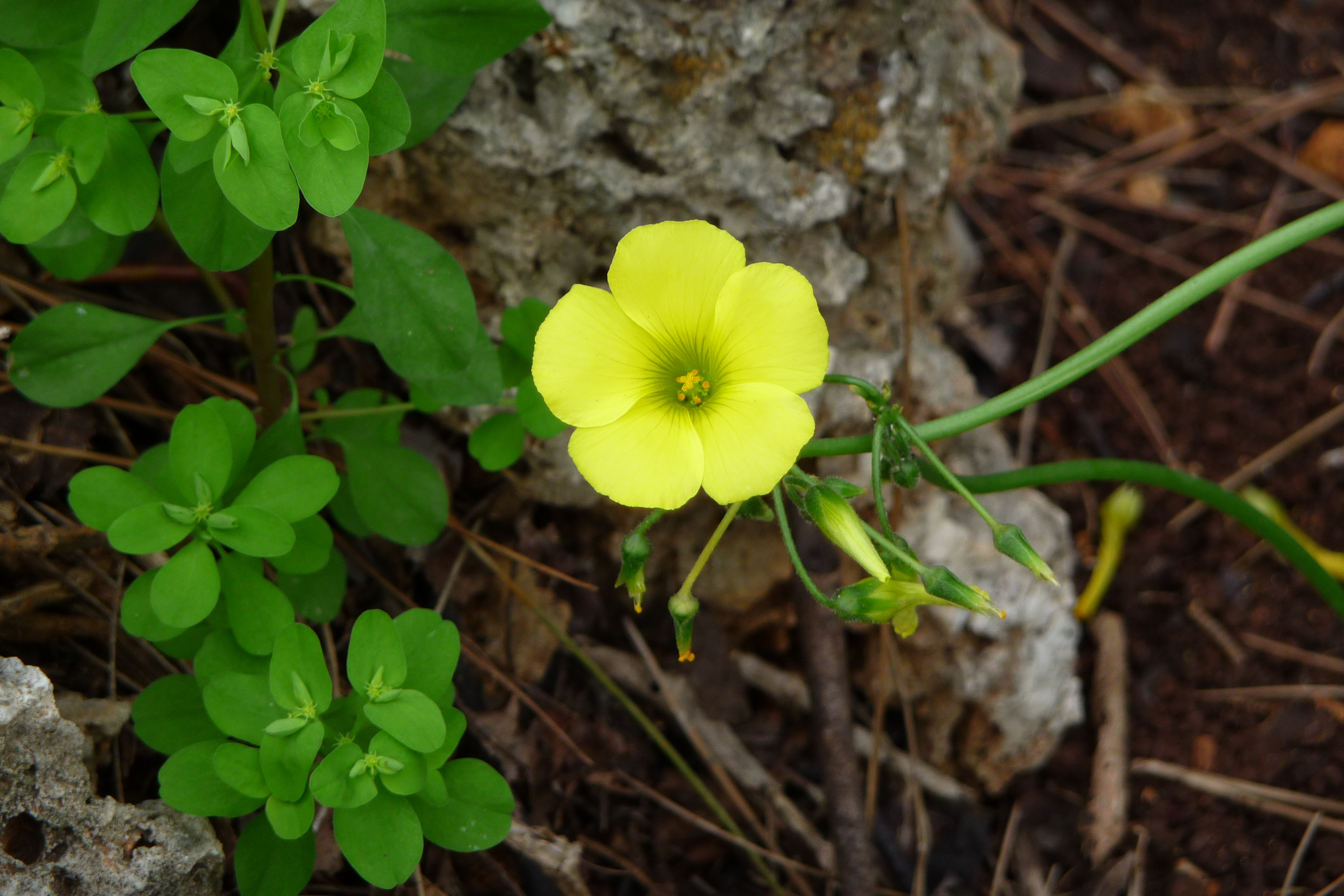 Beit Oren is a kibbutz in northern Israel. It falls under the jurisdiction of Hof HaCarmel Regional Council.